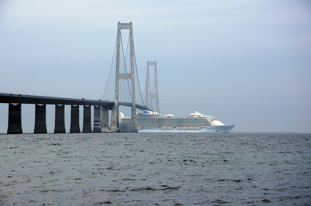 Allure of the Seas under the Storebaelts Bridge.